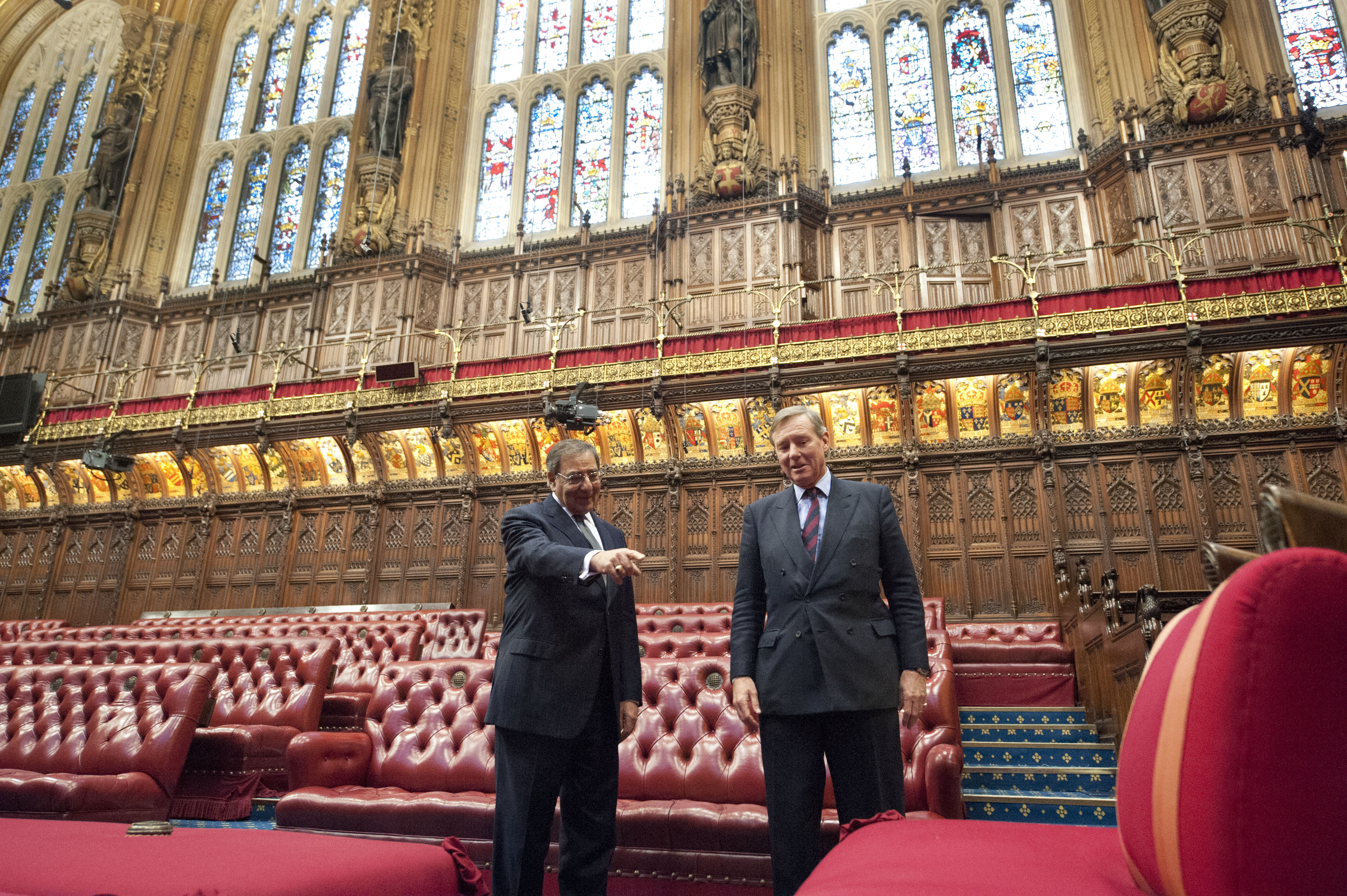 Secretary of Defense Leon E. Panetta is given a tour of the House of Lords by Minister of State for the Armed Forces of the UK, Andrew Robathan, in London, England, Jan. 18, 2013. Panetta is on a six day trip to Europe to visit with foreign counterparts and troops in the area.